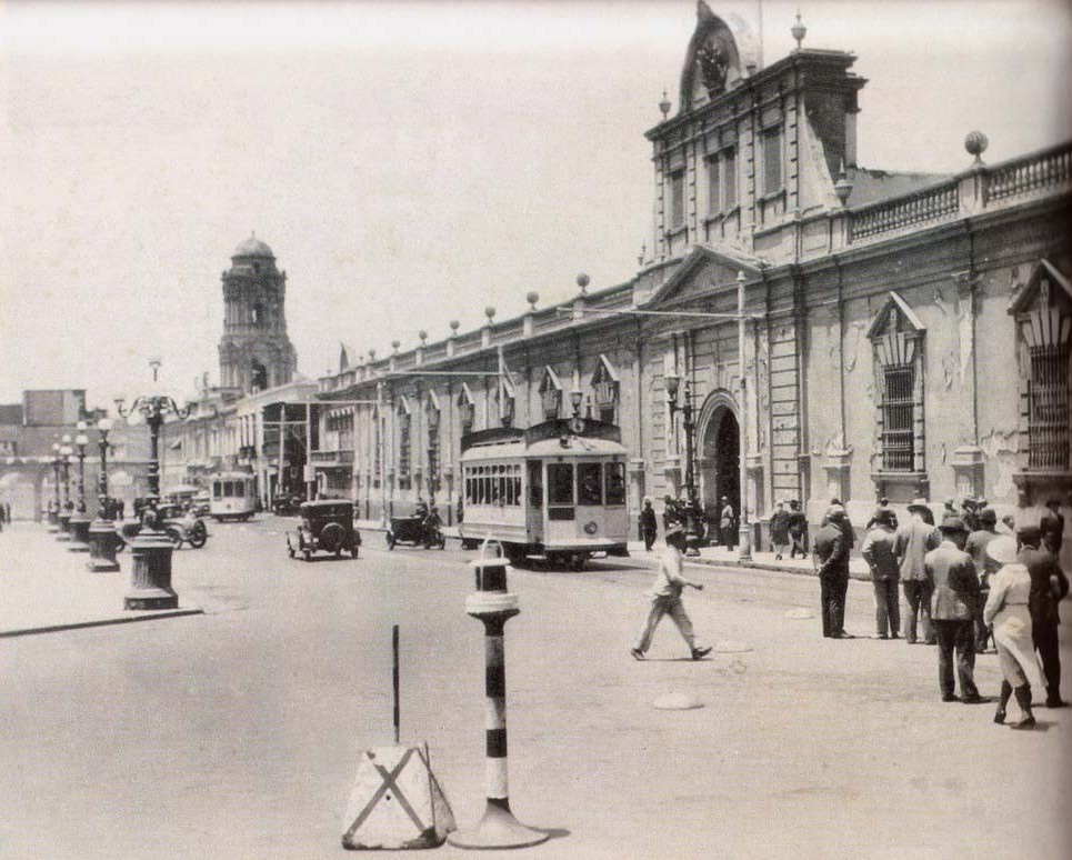 Peruvian Government Palace in 1932